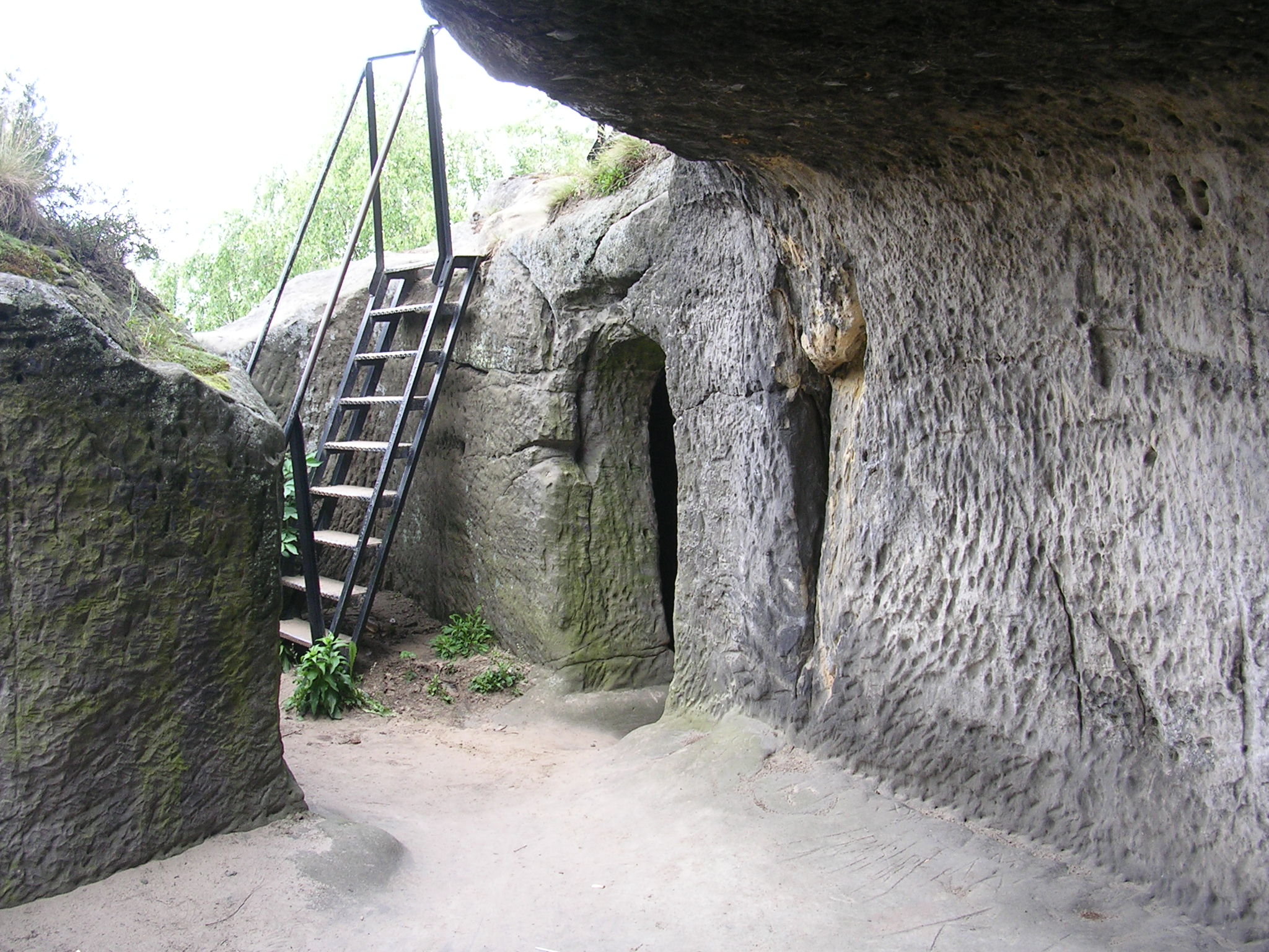 Drábské světničky, Mladá Boleslav District, Central Bohemian Region, the Czech Republic.